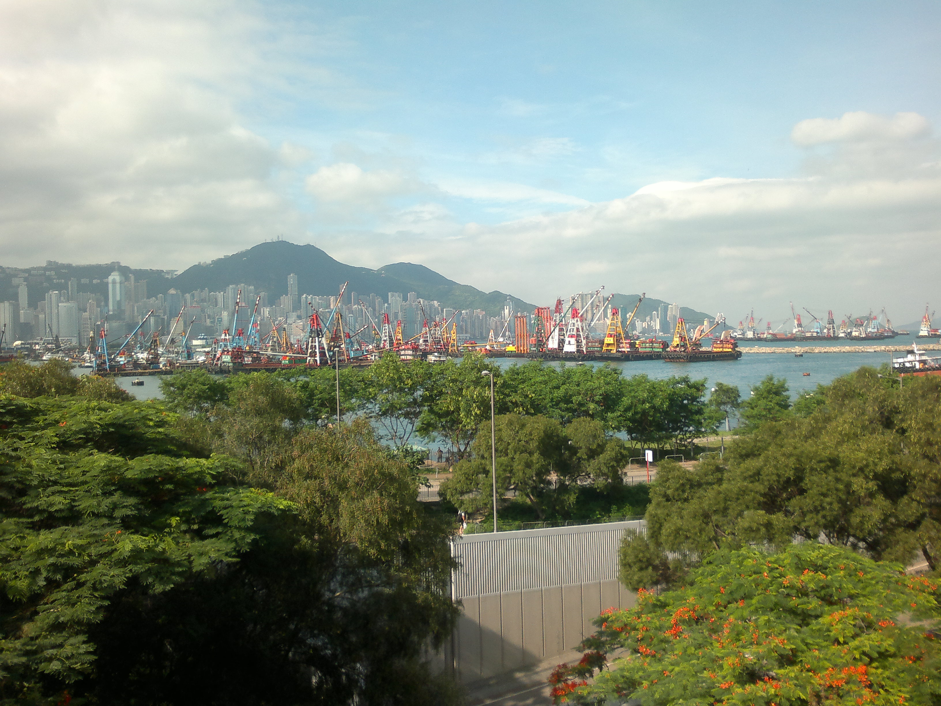 New Yau Ma Tei Typhoon Shelter viewed from Olympic